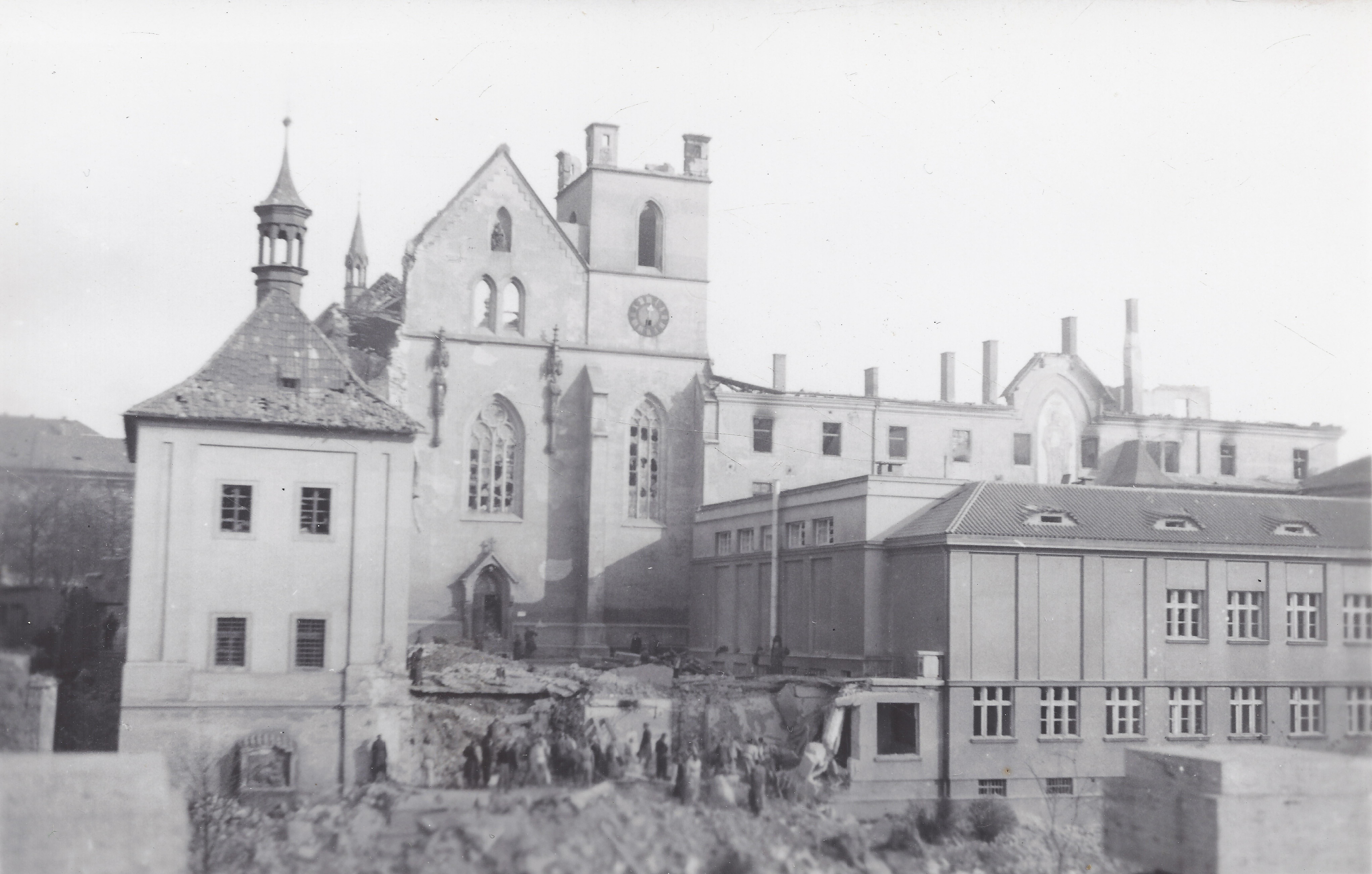 Emmaus Monastery, one day after February 14, 1945 bombing of Prague